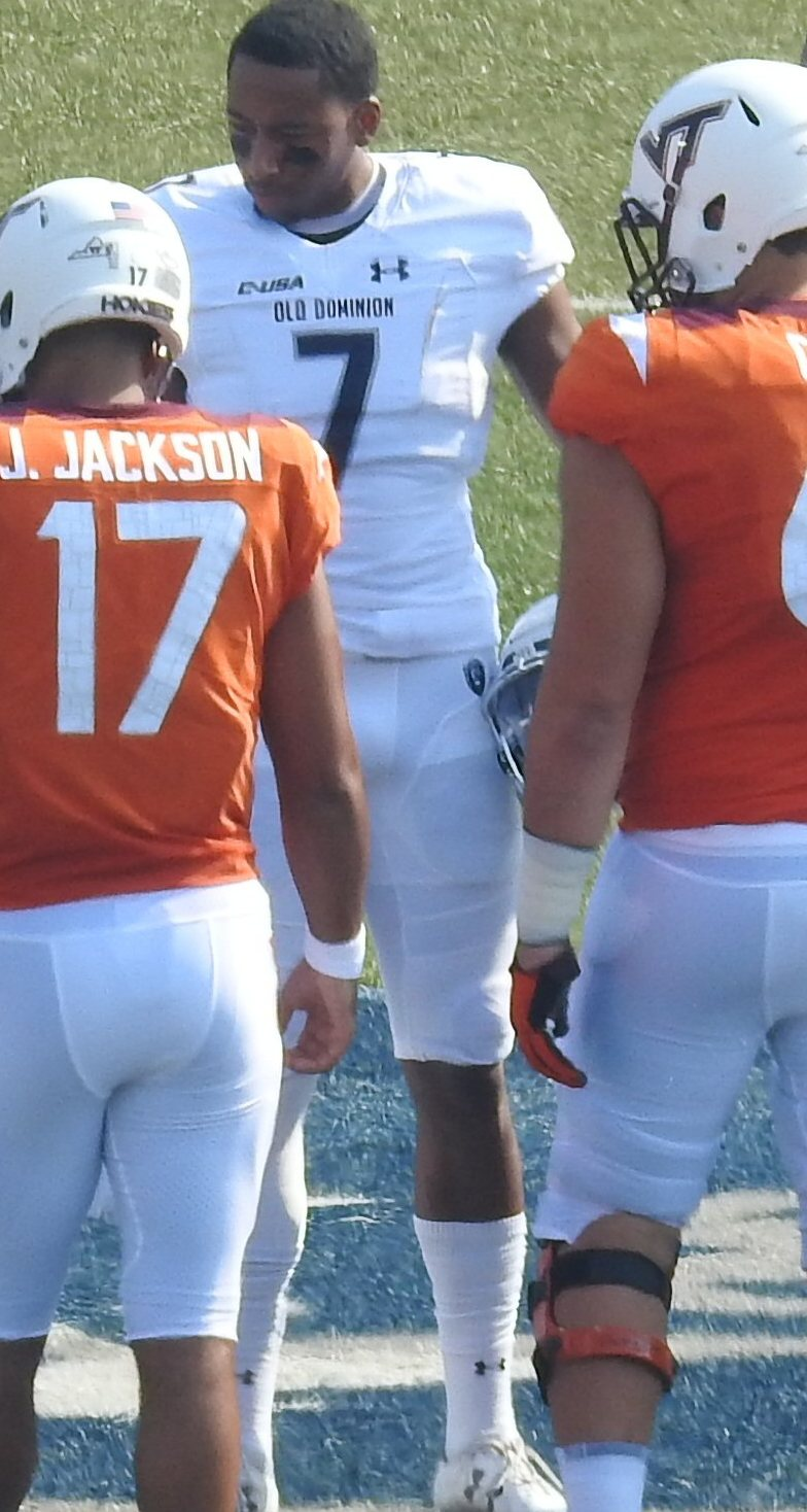 Captains meet for the coin toss prior to Virginia Tech's 2018 game at Old Dominion University. Virginia Tech players pictured (left-to-right) are #17 Josh Jackson, #61 Kyle Chung (son of Eugene Chung), #21 Reggie Floyd, and #8 Ricky Walker. ODU players pictured (left-to-right) are #15 Isaiah Harper, #7 Travis Fulgham, #7 Oshane Ximines (whose number is obscured but who also wears #7), and #9 Jonathan Duhart.